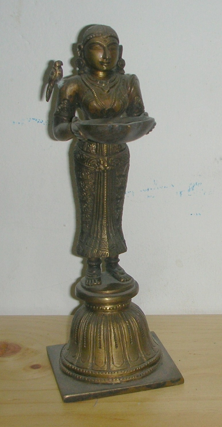 Paavai vilakku. Anthropomorphic oil lamp from Tamil Nadu